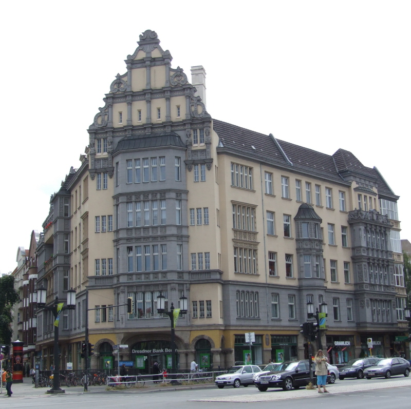 Version with higher resolution is available